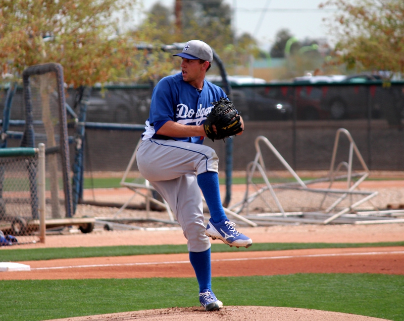 Aaron Miller in Spring Training